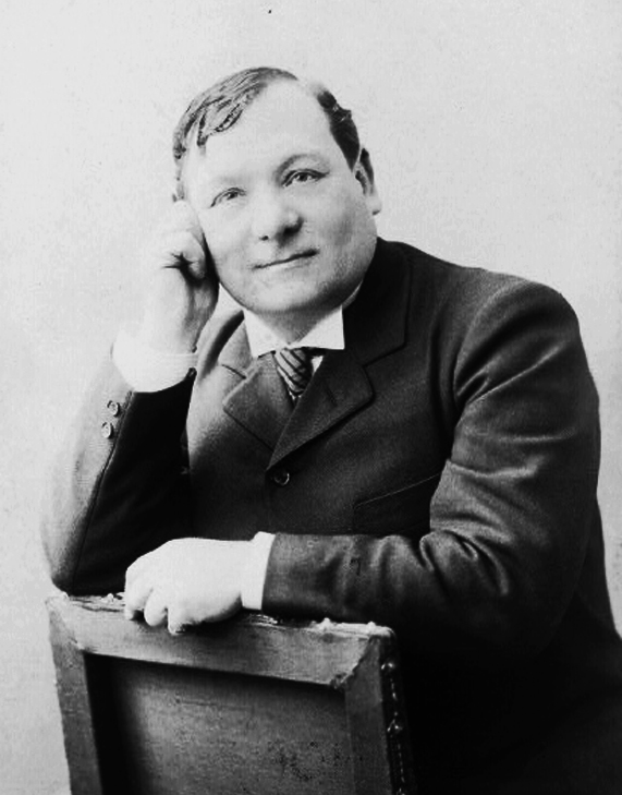 French actor and film director Maurice de Féraudy (1859-1932) photographed by Clément Maurice (1853-1933).